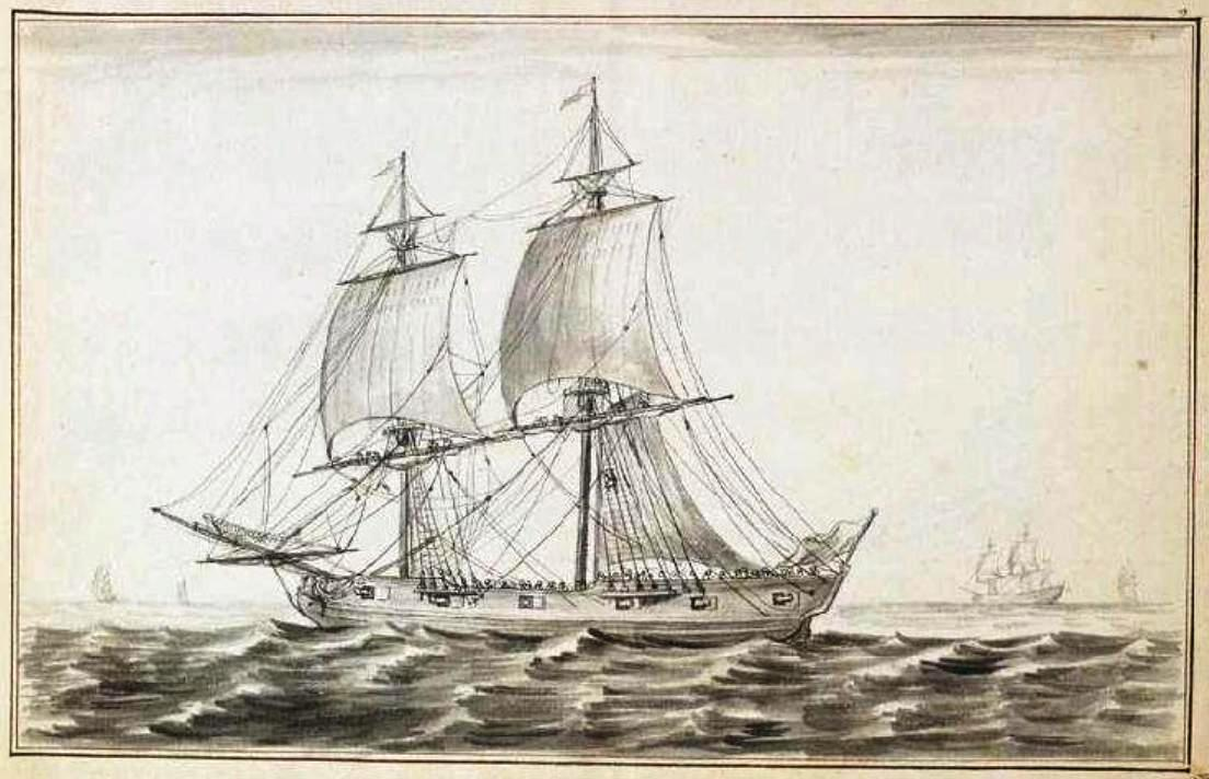 The pirate ship Le Sirionne in 1745, Dieppe.